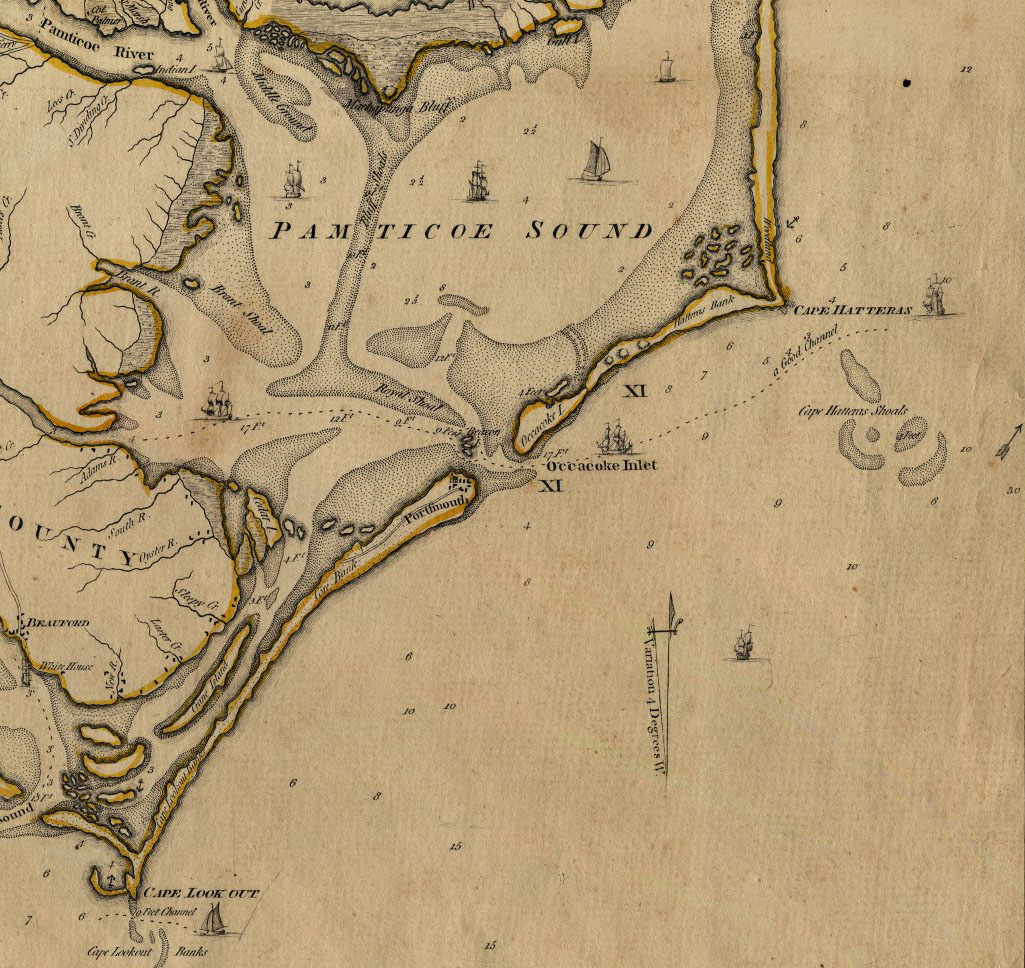 An Accurate Map of North and South Carolina With Their Indian Frontiers, Shewing in a distinct manner all the Mountains, Rivers, Swamps, Marshes, Bays, Creeks, Harbours, Sandbanks and Soundings on the Coasts; with The Roads and Indian Paths; as well as The Boundary or Provincial Lines, The Several Townships and other divisions of the Land in Both the Provinces; the whole from Actual Surveys By Henry Mouzon and Others.